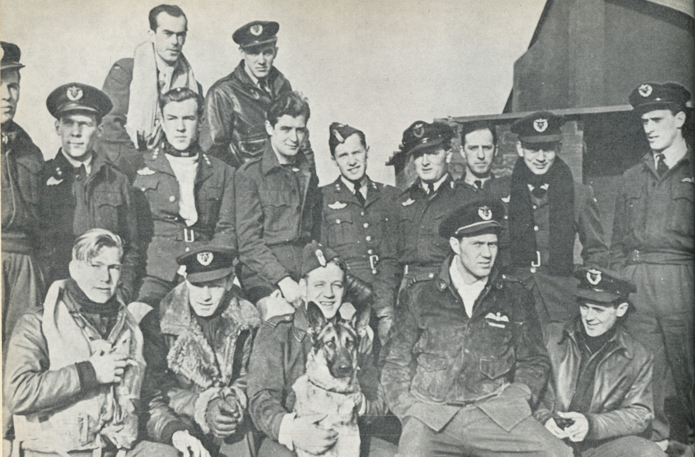 Norwegian 331 Squadron pilots in November 1942. On top: Johannes Greiner, Martin Gran. Second row, l-r: Helge Sognnæs (died 1943), Leif Lundsten (d. 1944), Stein Sem (d. 1942), Knut Backe (d. 1944), Anton C. Hagerup (d. 1943), Rolf Arne Berg (d. 1945), the Squadron's Intelligence Officer Philip Yatman, Rolf Engelsen and Svein Heglund. Bottom: Reidar Haave Olsen (d. 1944), Kristian Nyerrød, Fredrik Fearnley (d. 1944) with Varg, Kaj Birksted from Denmark and Tarald Weisteen. Note the mix of British and Norwegian uniforms.